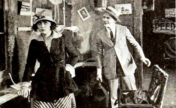 Still from the American film Hard Boiled (1919) with Dorothy Dalton and C.W. Mason, on page 17 of the March 1919 Film Fun. This was the only film Mason was in. He offers to provide her train money after their traveling comic opera company fails, but she refuses him.